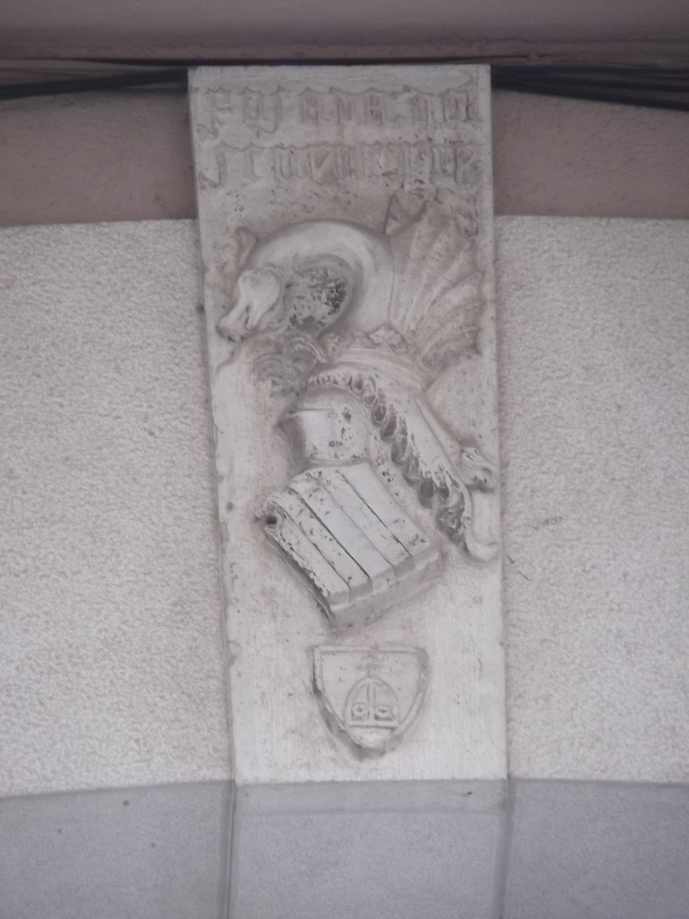 Coat of arms of the Inn of the King in Figueres